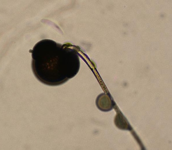 Choanephora cucurbitarum (Choanephoraceae Mucorales) incubated in wet chamber Japanese name;Kougaikekabi Date;2004,07,23;Susami town, Wakayama prefecture, Japan Author;Keisotyo